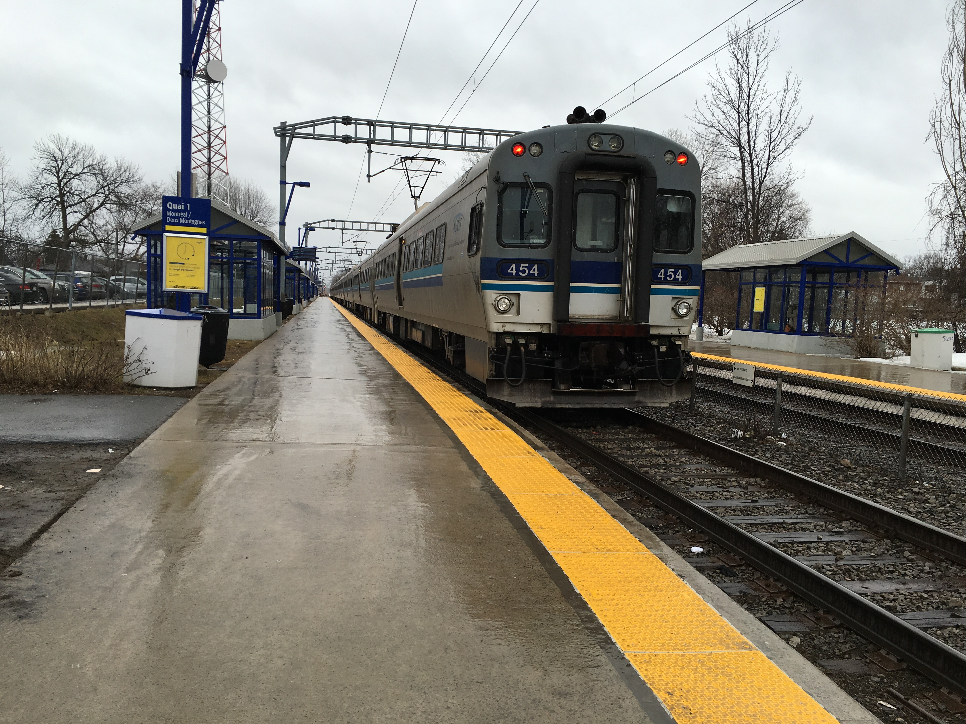 RTM commuter train at the Roxboro-Pierrefonds train station